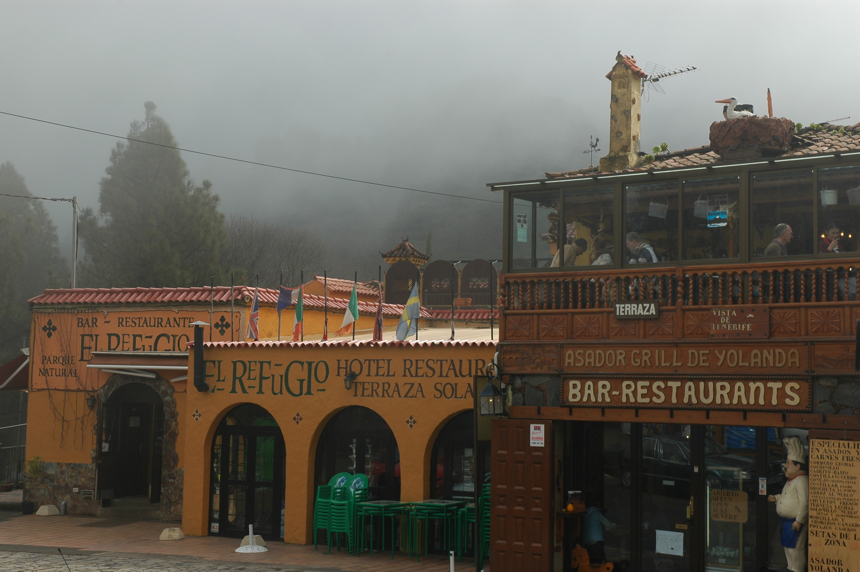 Snows in the Canary Islands, February 2005. Restaurants in the “Cruz de Tejeda” (Vega de San Mateo, Gran Canaria).